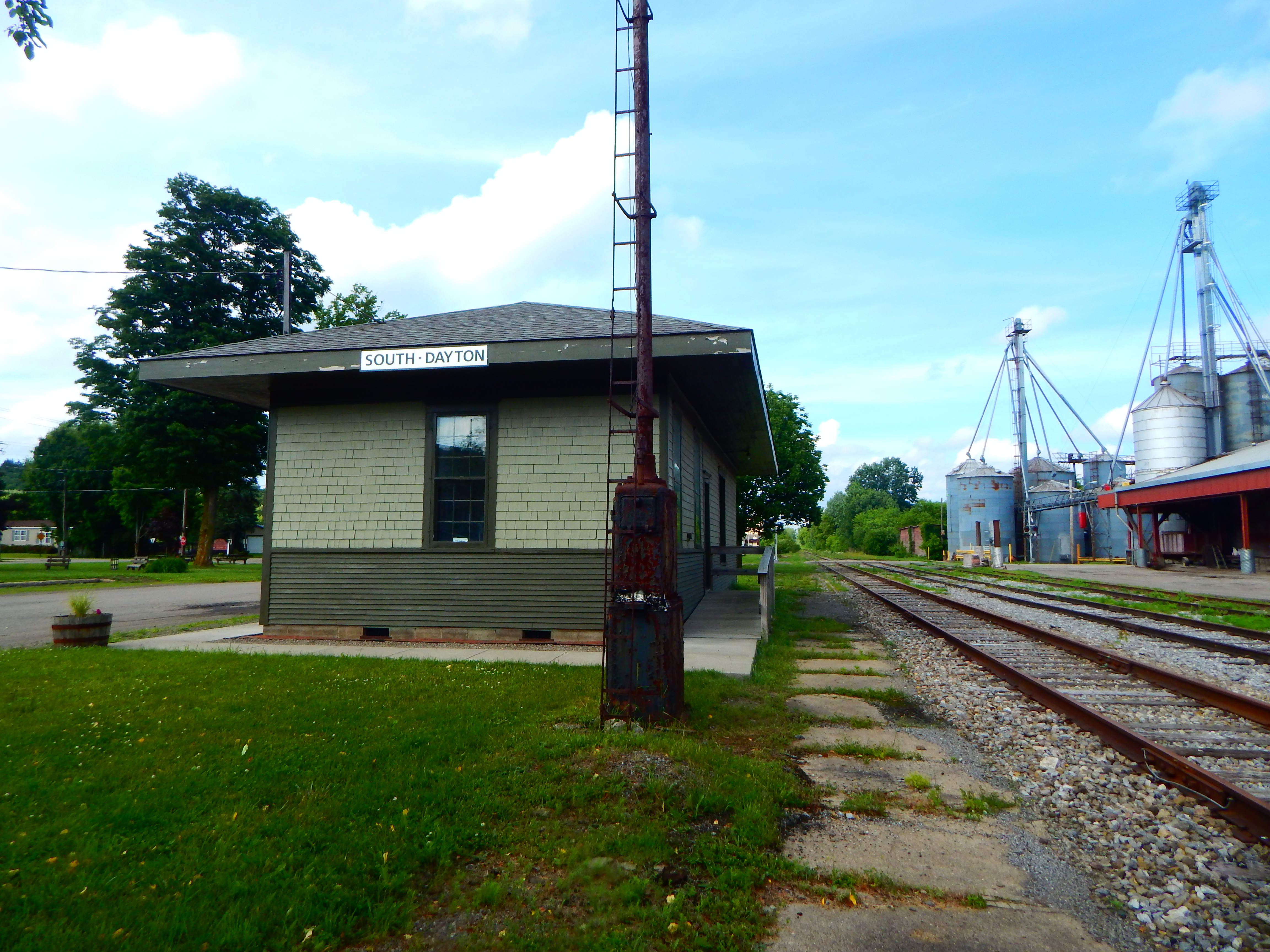 South Dayton station for the Buffalo and Southwestern Railroad in South Dayton, New York.